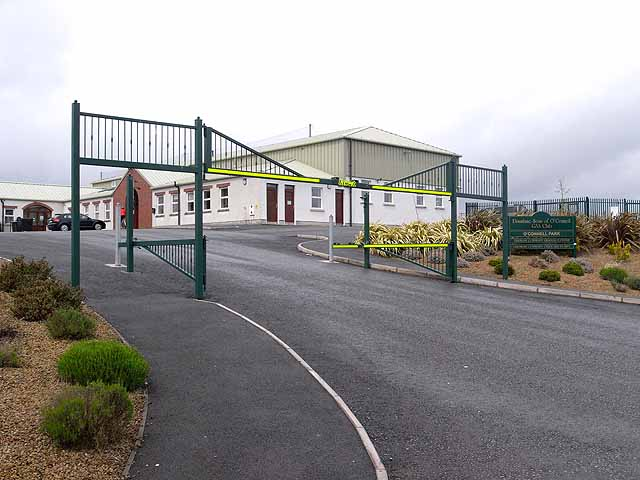 Drumlane Community Resource Centre This handsome building which also accommodates the Drumlane Sons of O'Connell GAA (Gaelic football club) was opened by President Mary McAleese in December 2005.